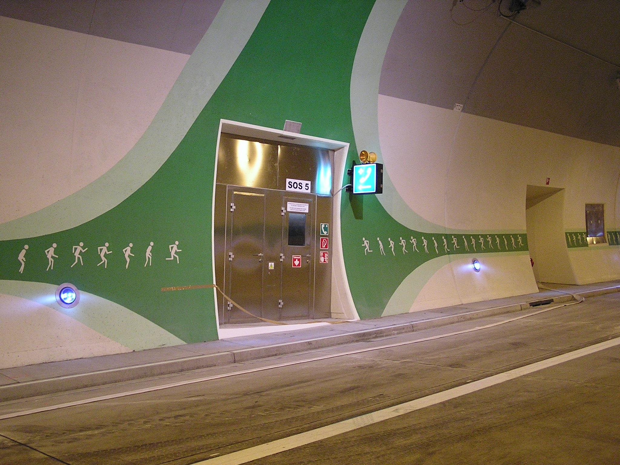 Tunnel Valík, Highway D5, Czech Republic; SOS hláska